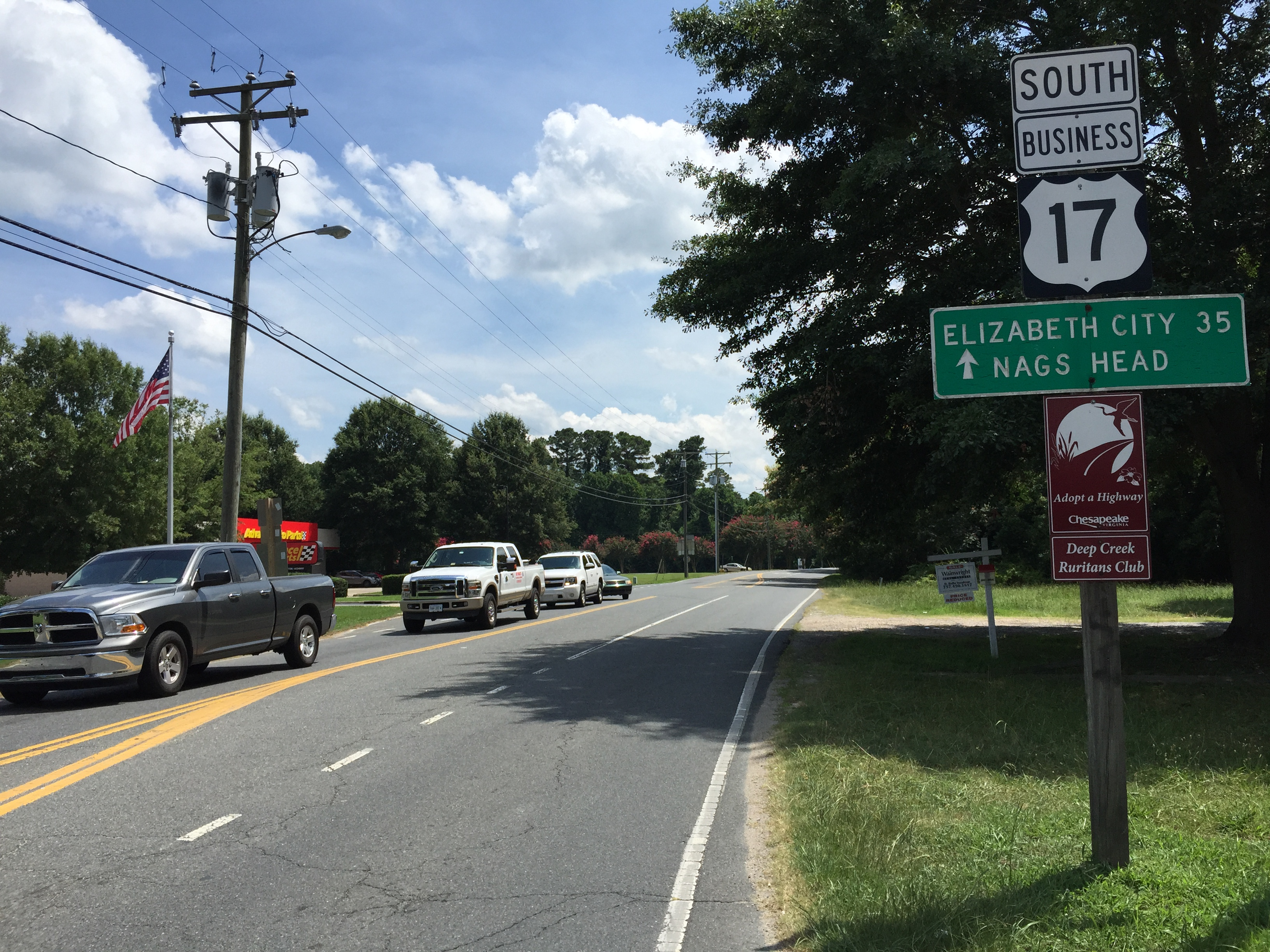 View south along U.S. Route 17 Business (George Washington Highway) at Virginia State Route 165 (Moses Grandy Trail) in Chesapeake, Virginia